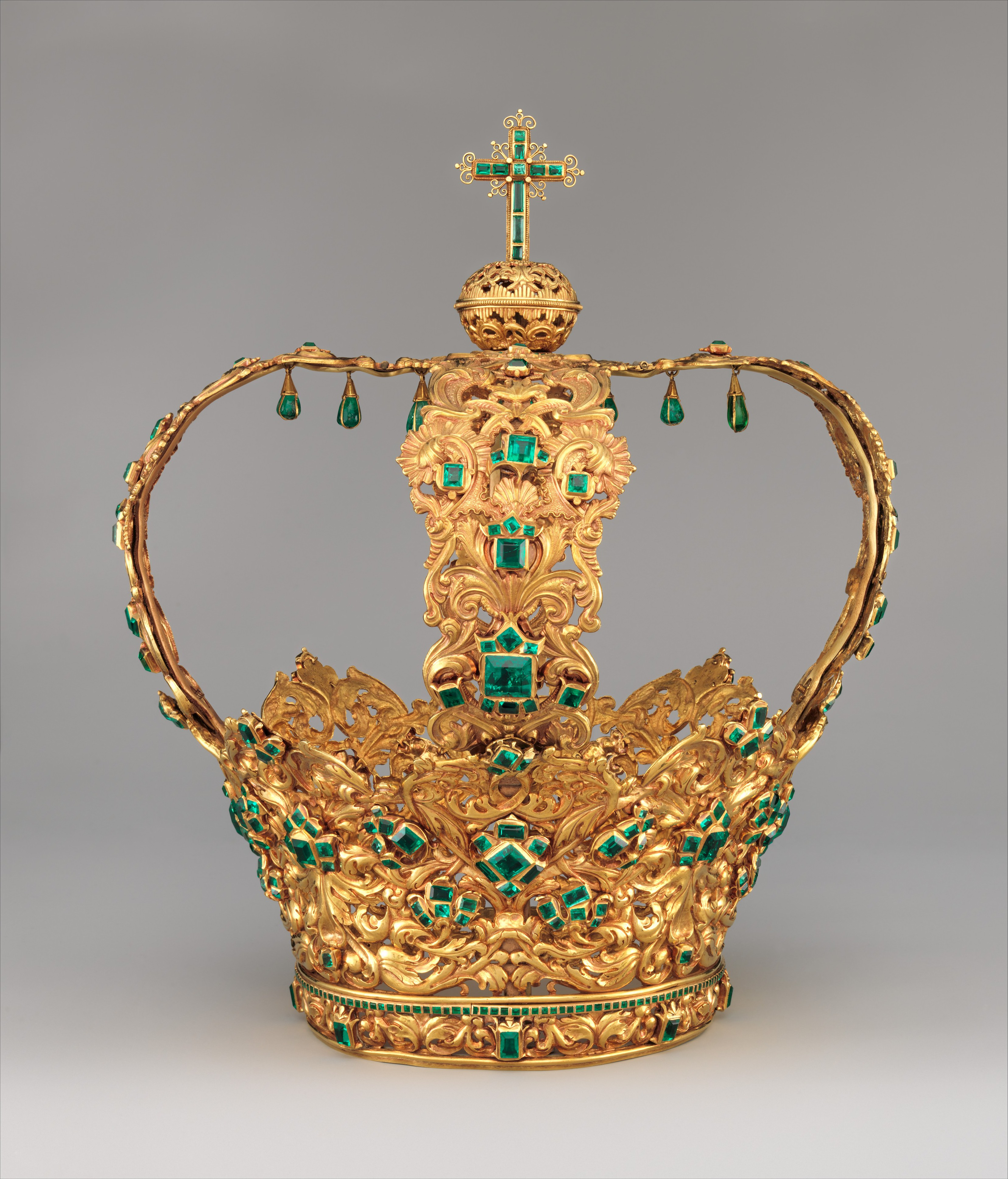 The Crown of the Andes, a votive crown originally made for a larger than life-size statue of the Virgin Mary in the Cathedral of Popayán, Colombia. It contains 450 emeralds, including some that were purportedly taken from the captured Inca Emperor Atahualpa (1497–1533). This photograph is one of the many released by the Metropolitan Museum of Art under a CC-0 license, which has been a boon to free images of 3D works of art.